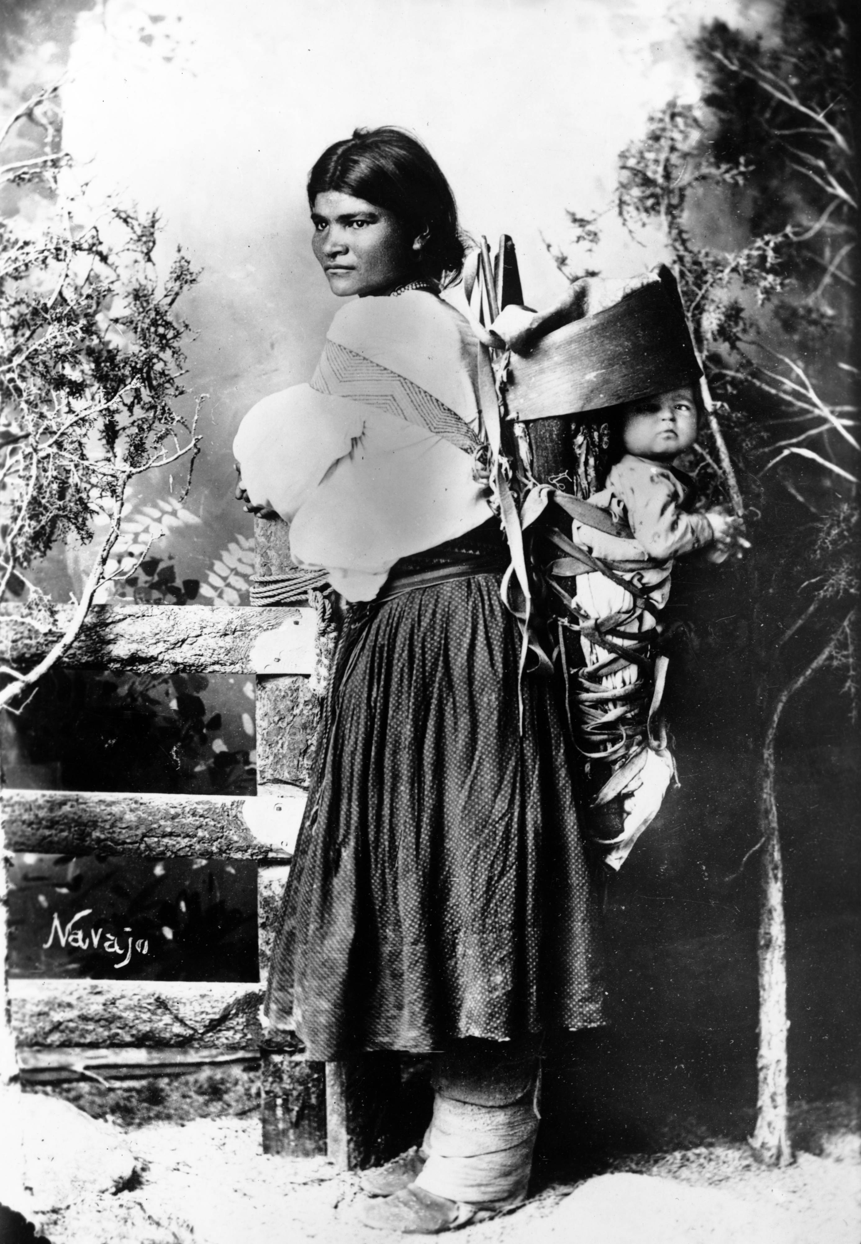 Studio portrait of a Native American (Navajo) woman with a child in a cradleboard on her back. She wears boot moccasins.